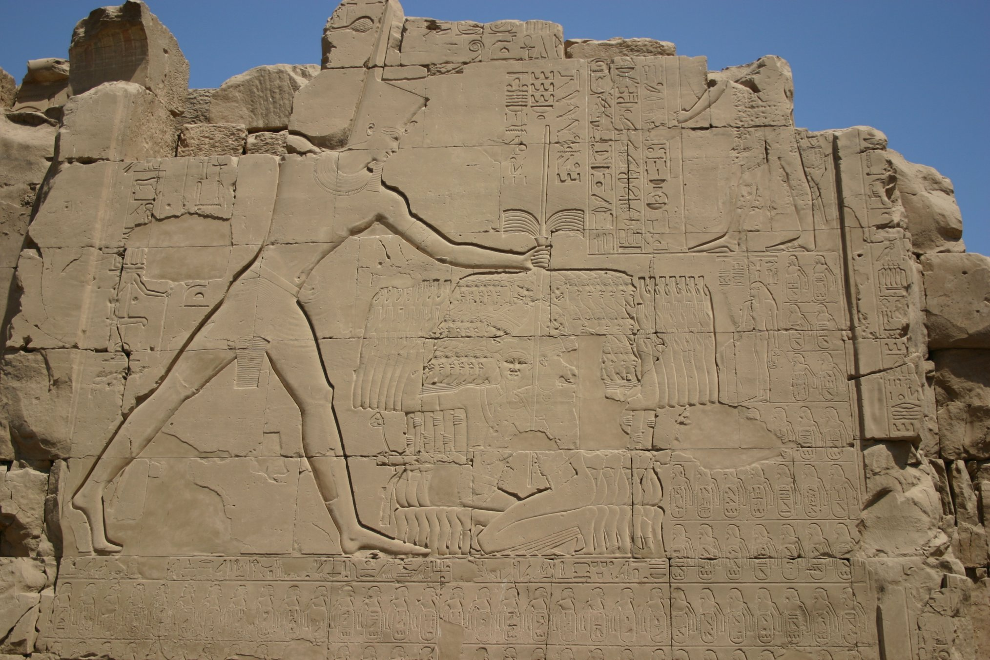 Thutmose III smiting Canaanite enemies on the seventh pylon at Karnak describing the Battle of Megiddo, 15th Century BC.